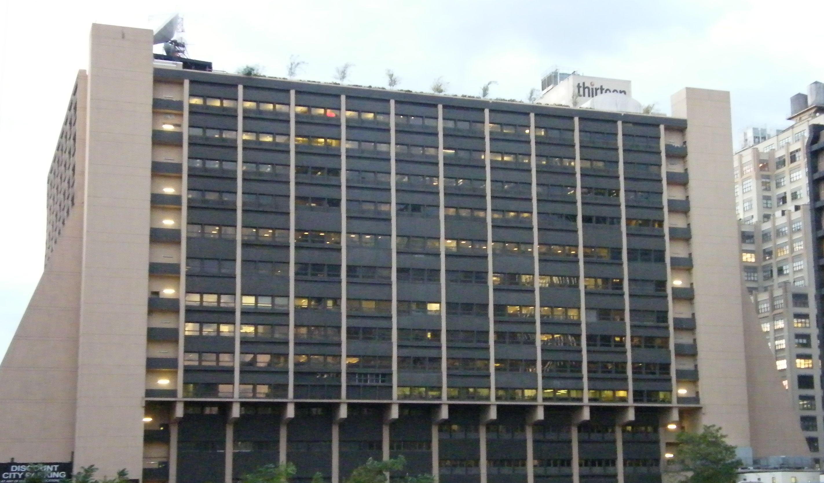 450 West 33rd Street, home of WNET.